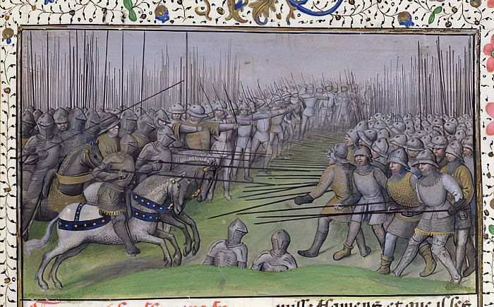 Ms 659 f.284r The French beating the Flemish at Westrozebeke in 1382